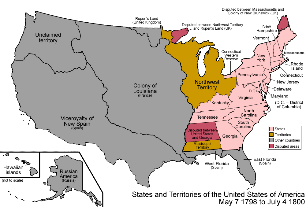 Map of the states and territories of the United States as it was from 1798 to July 4, 1800. On May 7, 1798, the United States created Mississippi Territory from the territory awarded to it by "Pinckney's Treaty" in 1795 (which Georgia considered to be a part of its western land claim), and disputed Georgia's western land claim. On July 4, 1800, Indiana Territory was split from Northwest Territory.